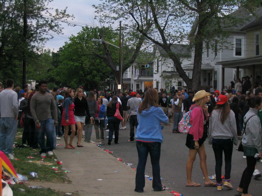 Palmerfest in Athens, Ohio on May 8, 2010, looking north from a street view around 5:00 p.m.